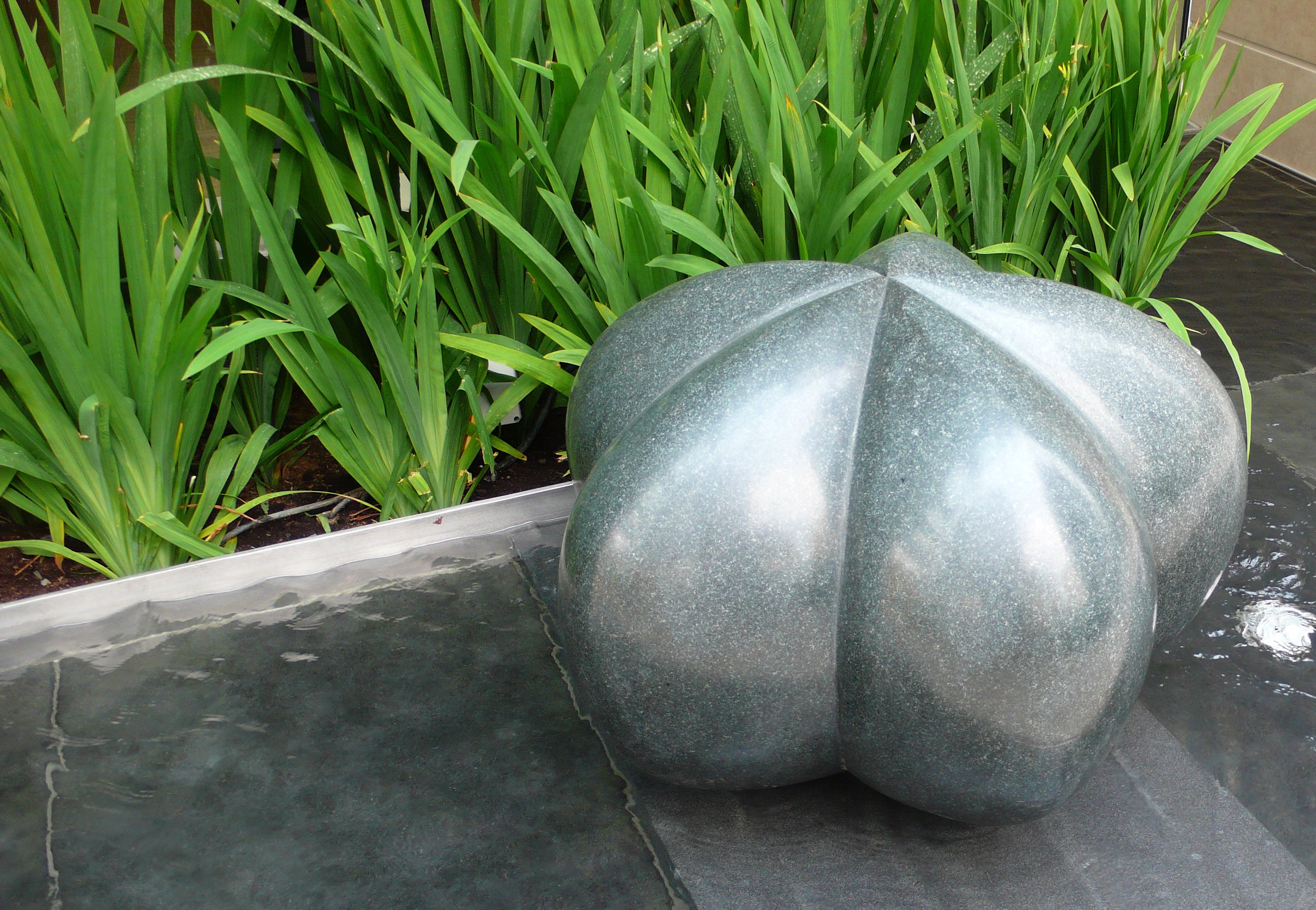 A seed sculpture by Singaporean sculptor Han Sai Por at the St. Regis Singapore hotel.